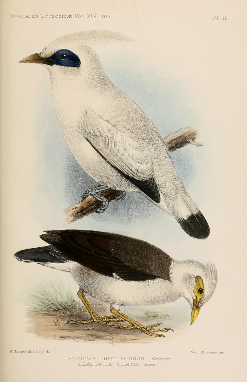 « Leucopsar rothschildi » = Leucopsar rothschildi (Bali Myna) « Gracupica tertia » = Acridotheres melanopterus tertius (Subspecies of Black-winged Starling)